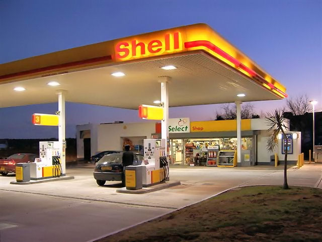 photo of filling station by member ianmacm.